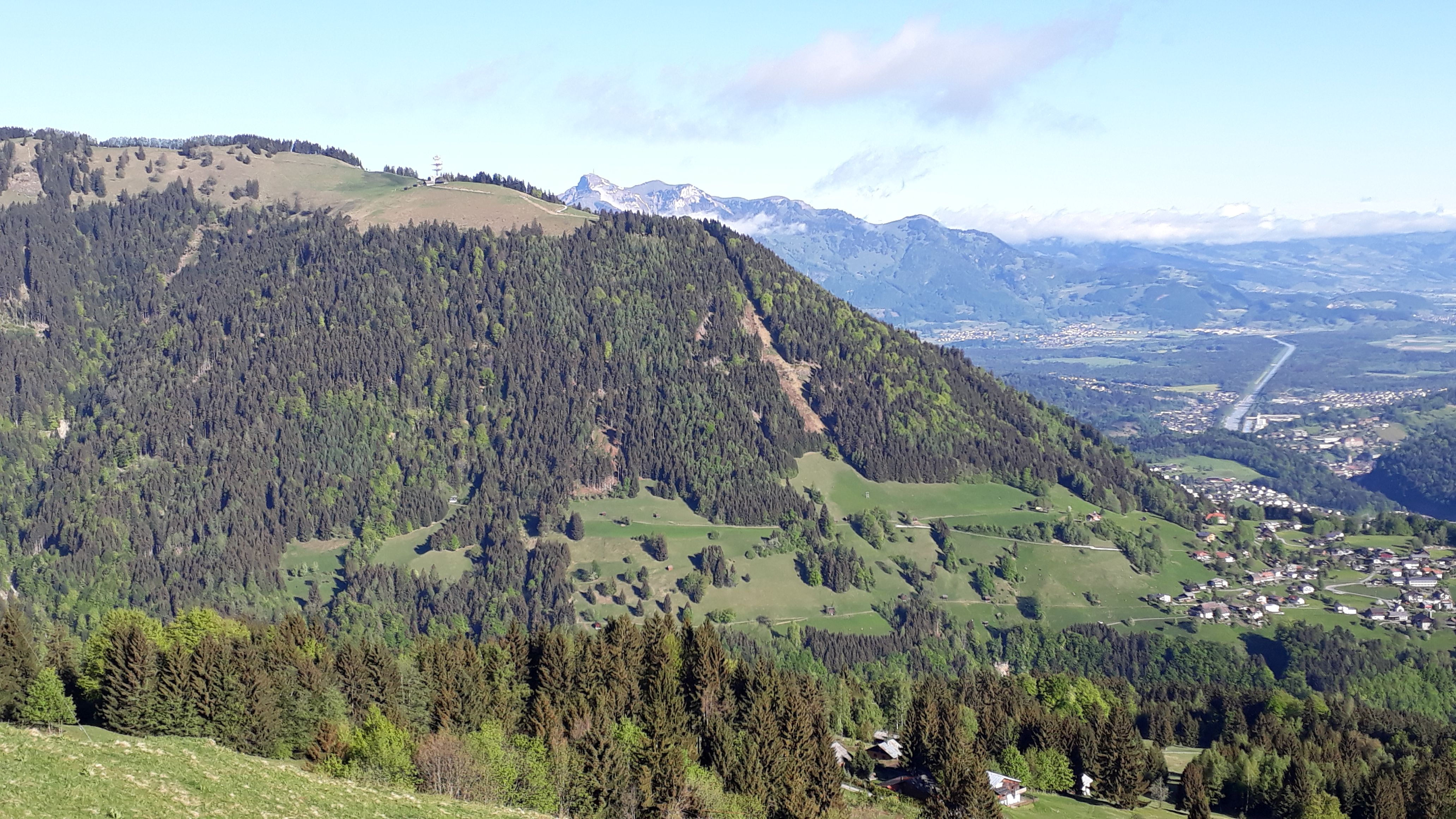 Älpele in Frastanz, Vorarlberg, Austria with ORF / ORS station, cable car to Feldkircher hut. In the background the Hohe Kasten (Switzerland) and on the right the Rhine Valley near Feldkirch.